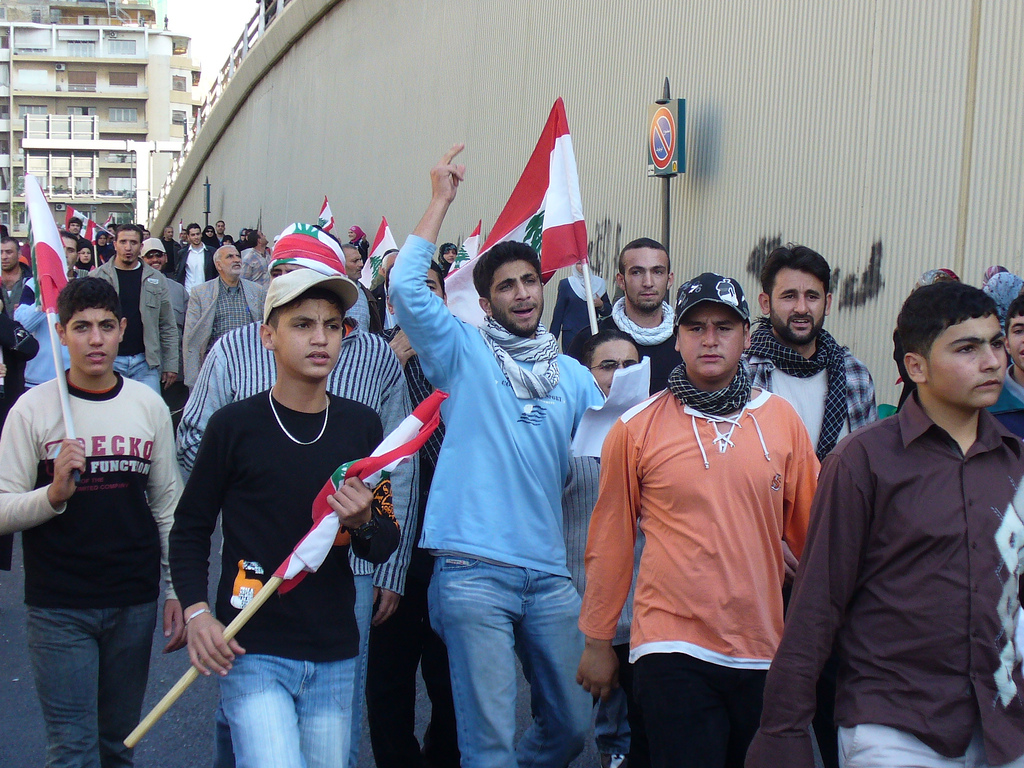 Down Town Lebanon, where around 1 million people demonstrated against the government and the prime minister demanding from him to resign.